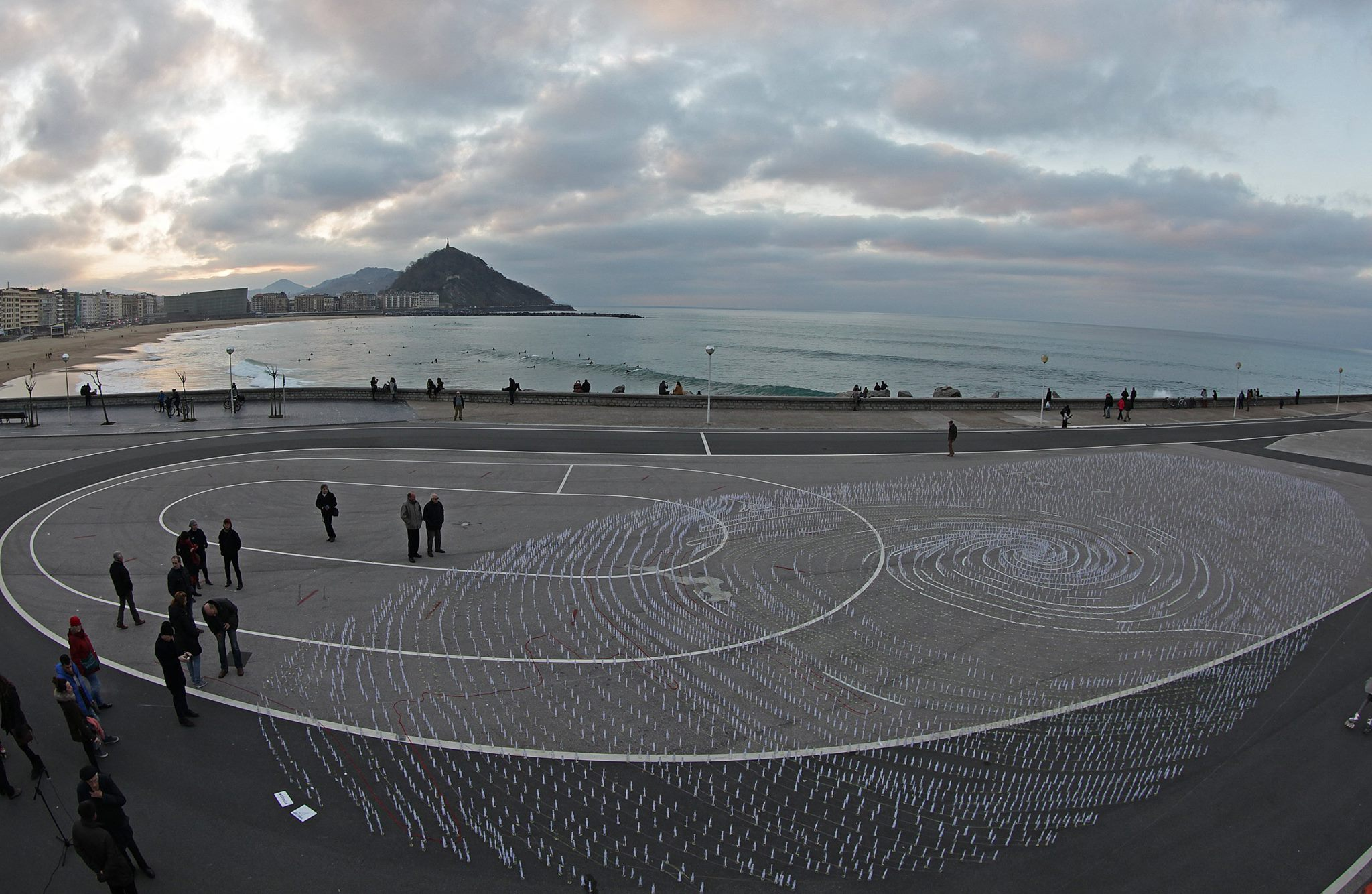 Installation Art "Aztarnak" of the project # 10mila Joan etorrian The installation #installarionart of the basque artist Irantzu Lekue has closed the program Energy Waves of @DSS2016Europe The artwork consists of 10.000 bottles with messages of citizens giving their opinions about San Sebastian as European Capital of Culture 2016